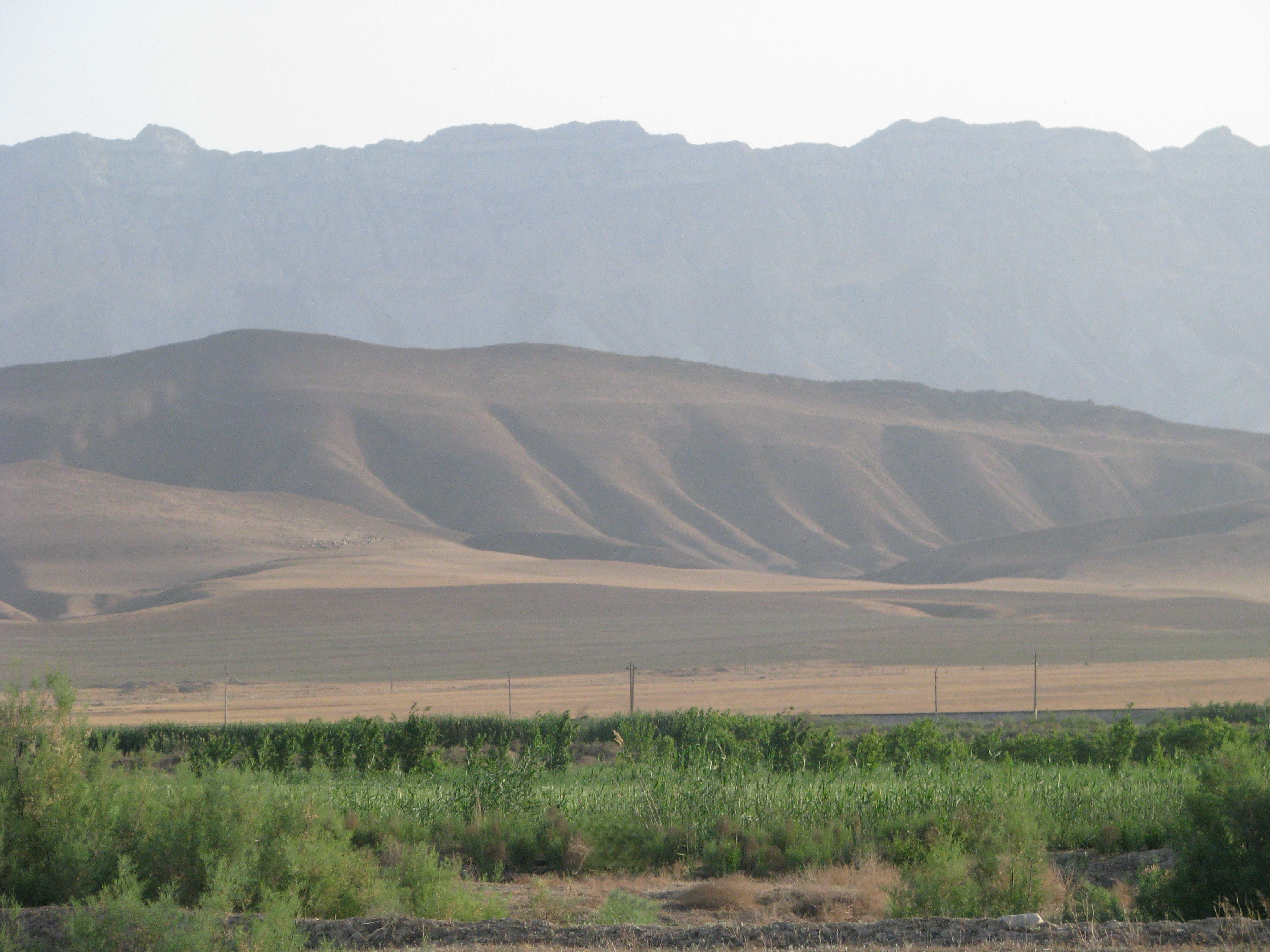 View on the Kopetdag mountains from the Ahal plain.